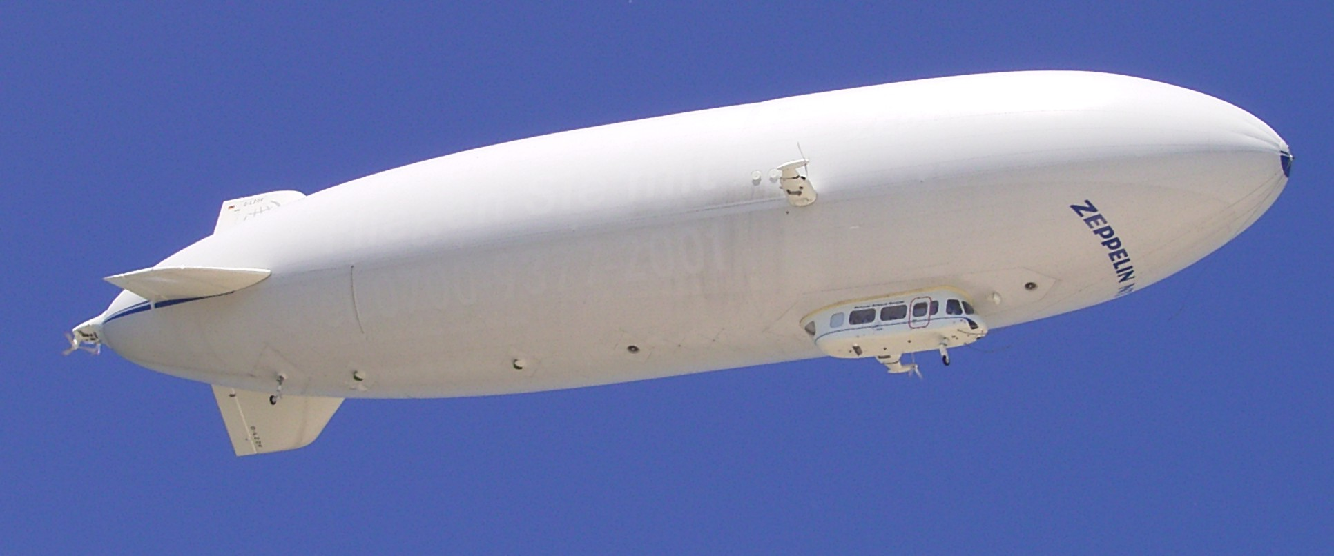 The Zeppelin NT above Friedrichshafen